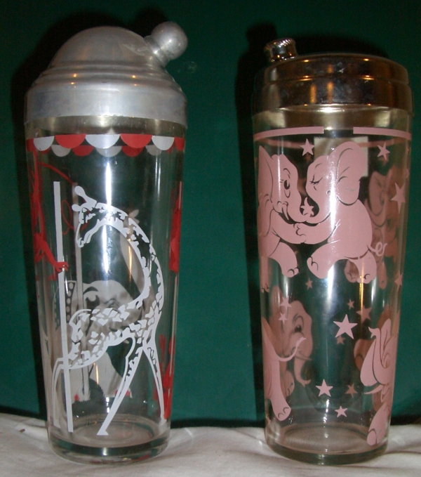 Pair of 1950s Cocktail Shakers